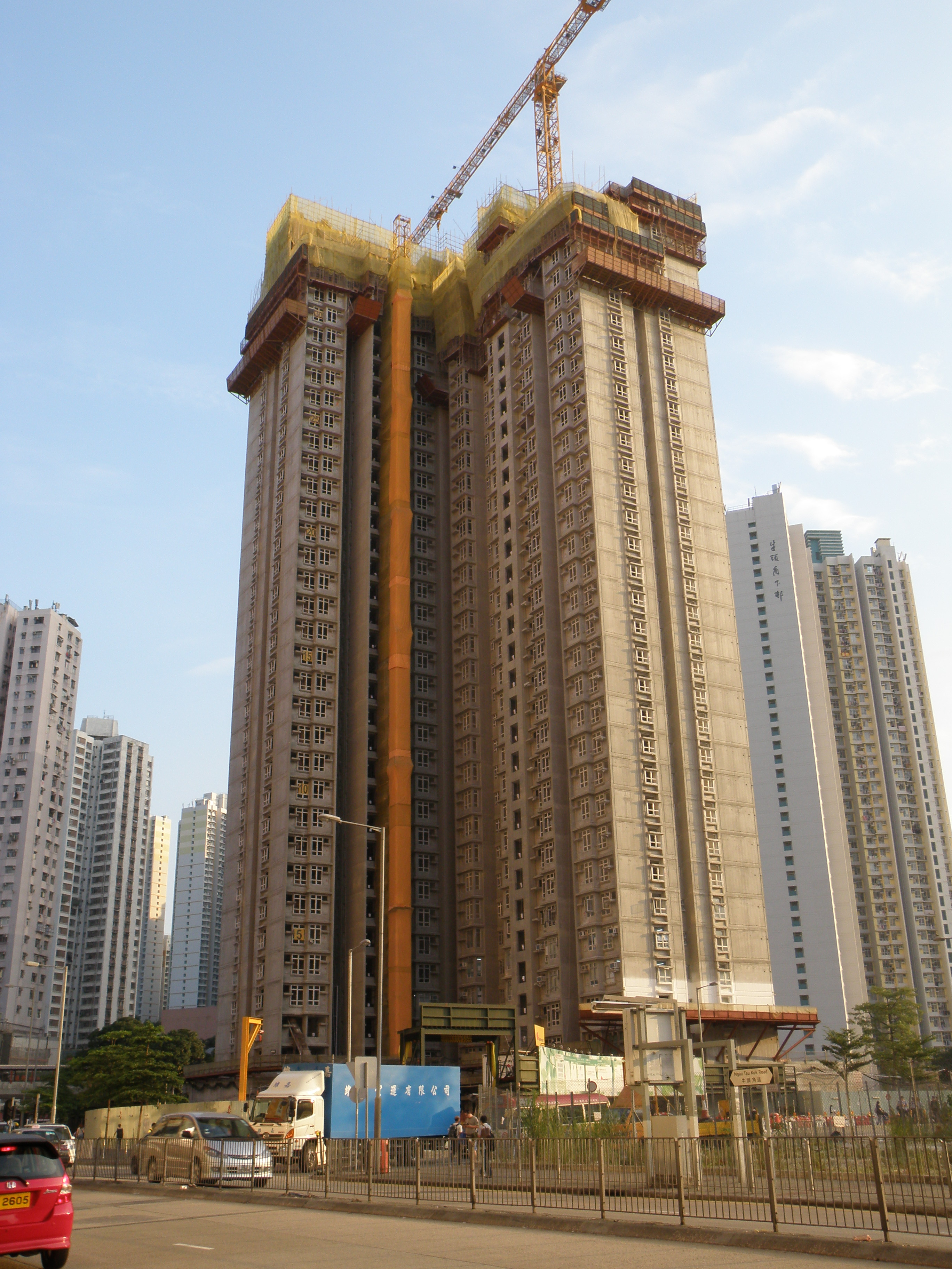 Lower Ngau Tau Kok Estate Block 6 under rebuild, Kowloon Bay, Hong Kong.